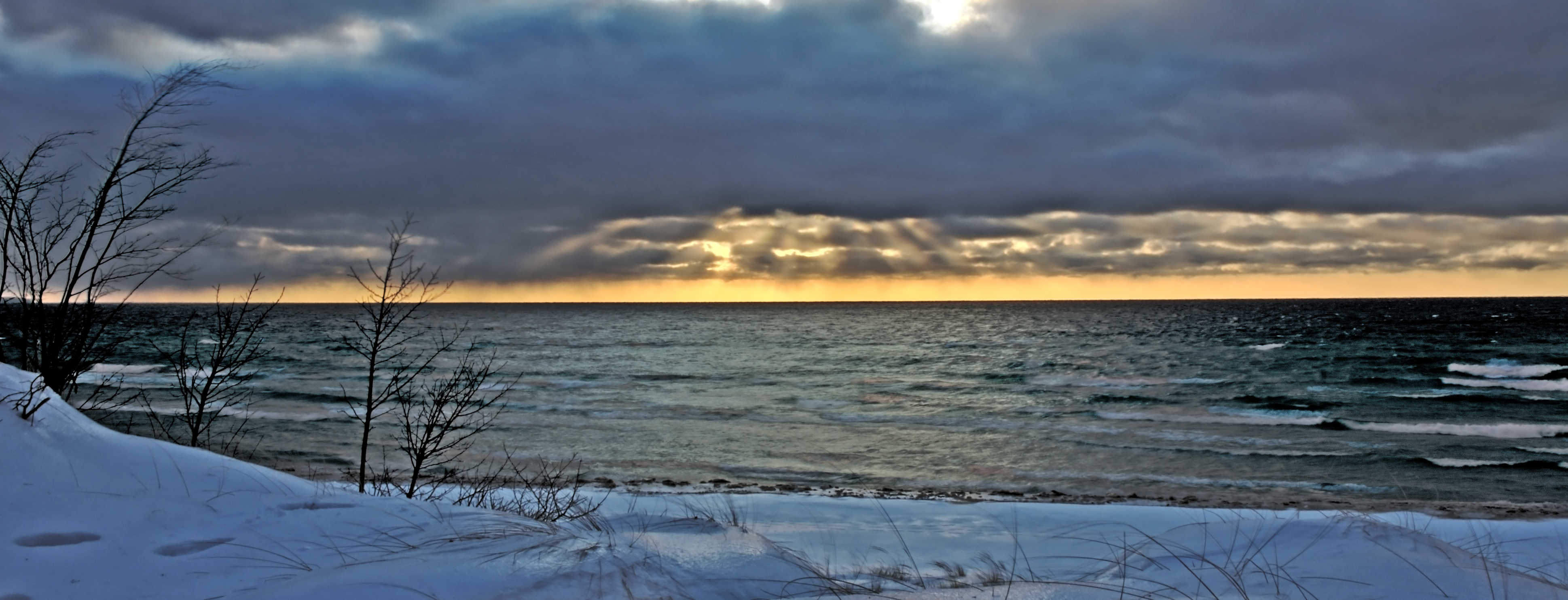 A blended HDR (small range, 3-stops) image of sunset over Lake Michigan. Processing done with Photomatix and Adobe Photoshop